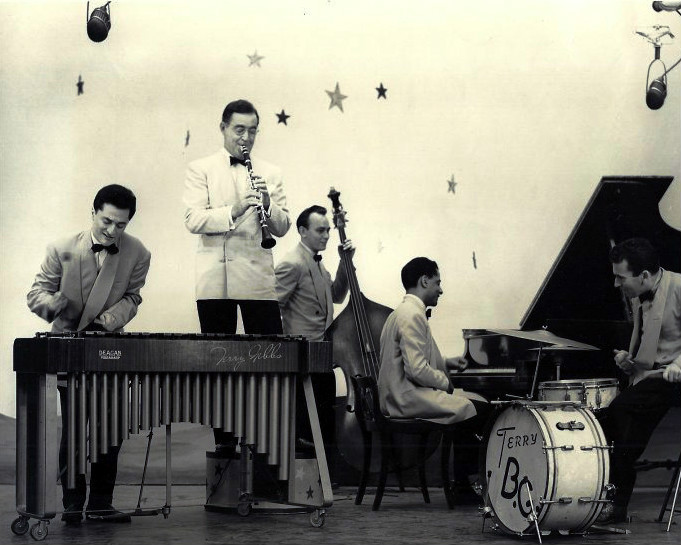 Photo of Benny Goodman and his band from the DuMont Television network program Star Time.